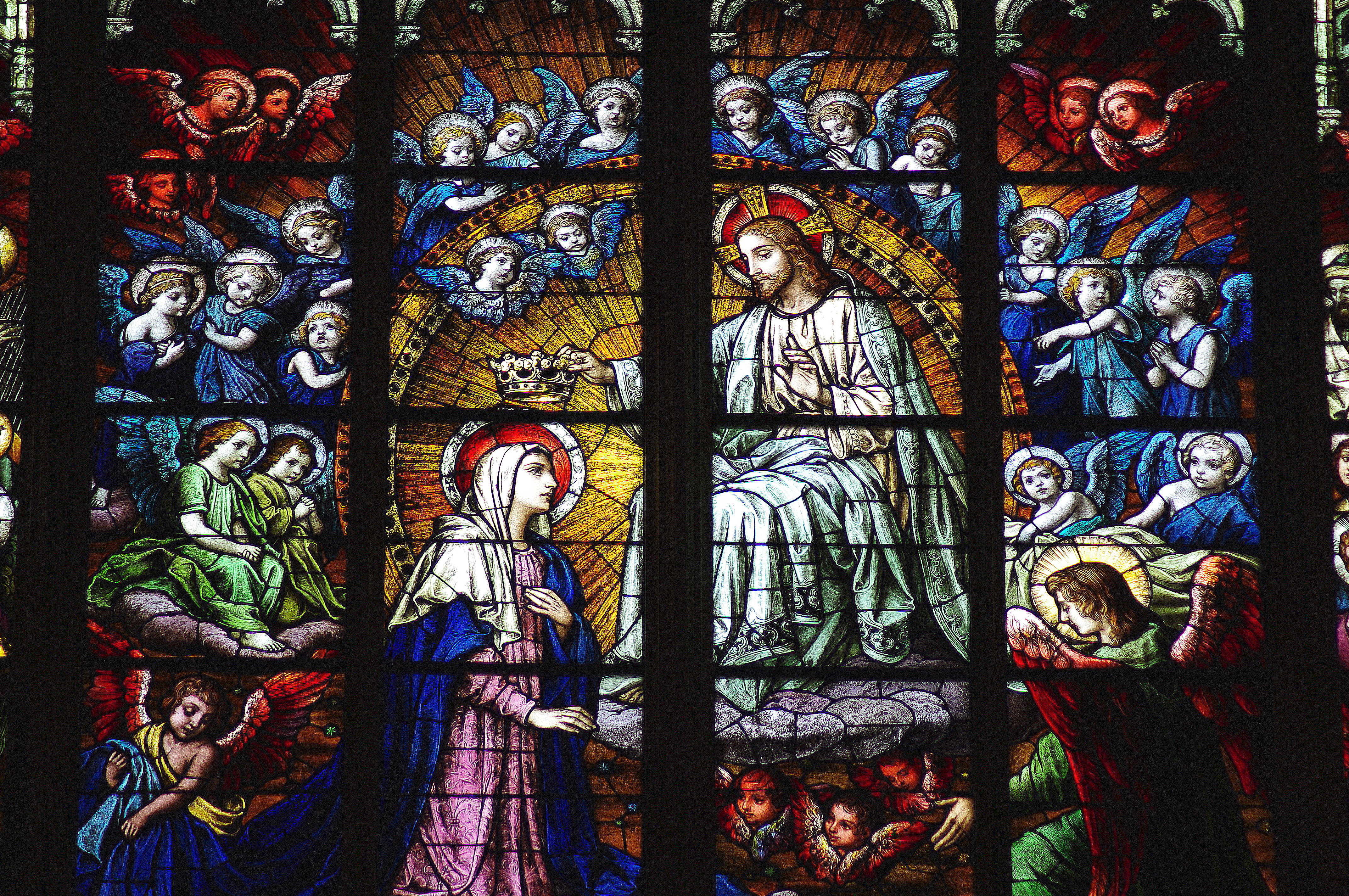 St Mary's Cathedral Basilica of the Assumption - Covington, KY Detail from largest stained glass window; shows Christ crowning the Blessed Virgin Mary as Queen of Heaven